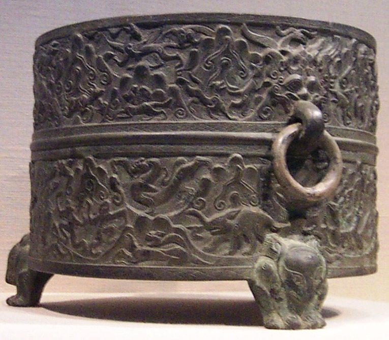 A Chinese Western Han Period (202 BC – 9 AD) bronze wine warmer with cast and incised decoration, from Shanxi or Henan province, dated 1st century BC.